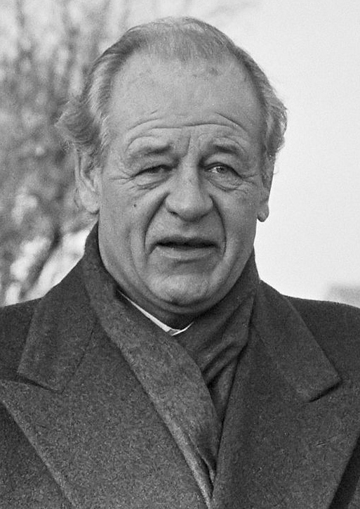 Dr Freddy Heineken Chairman of the Board of directors and CEO of the Heineken International in 1983